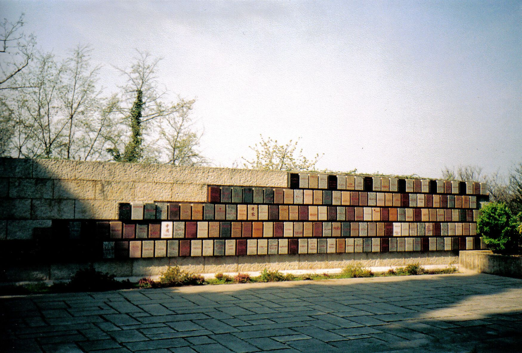 The Red Cross Memorial in Solferino, Italy, birthplace of the Red Cross Source: picture taken by User:UW in April 2005 License